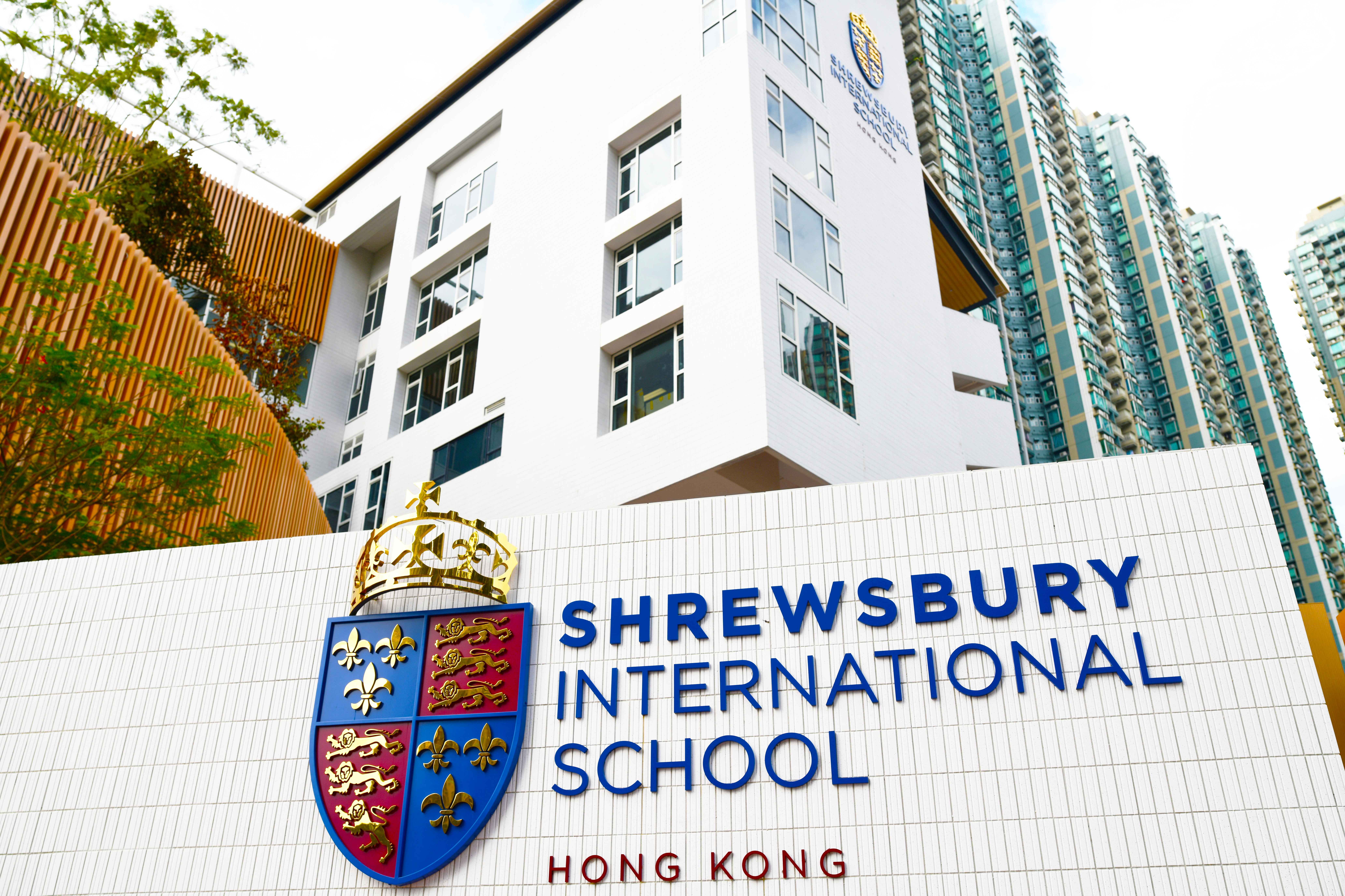 Shrewsbury International School Hong Kong 中文（香港）: 香港思貝禮國際學校